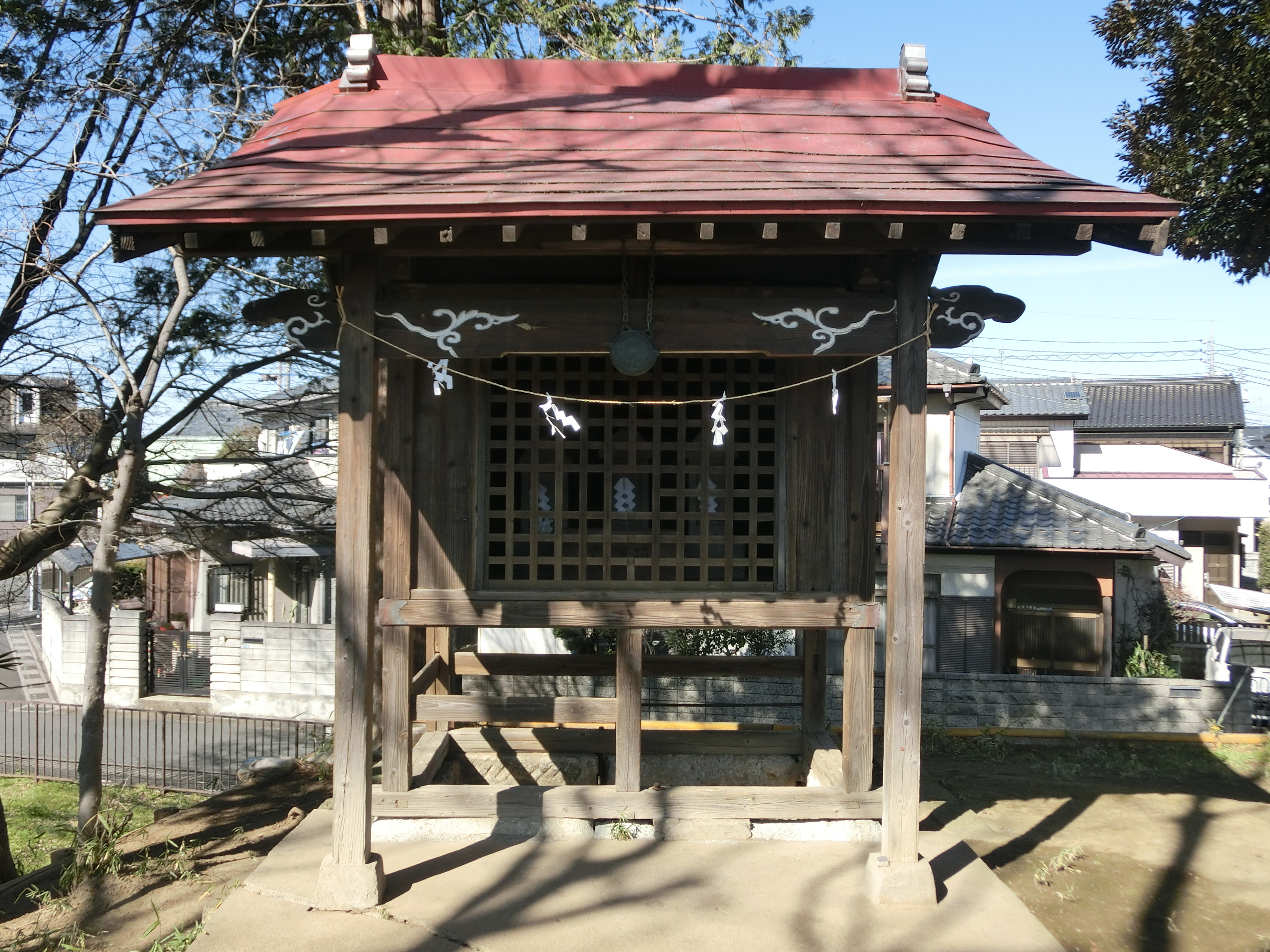 Gojinyama Jinja